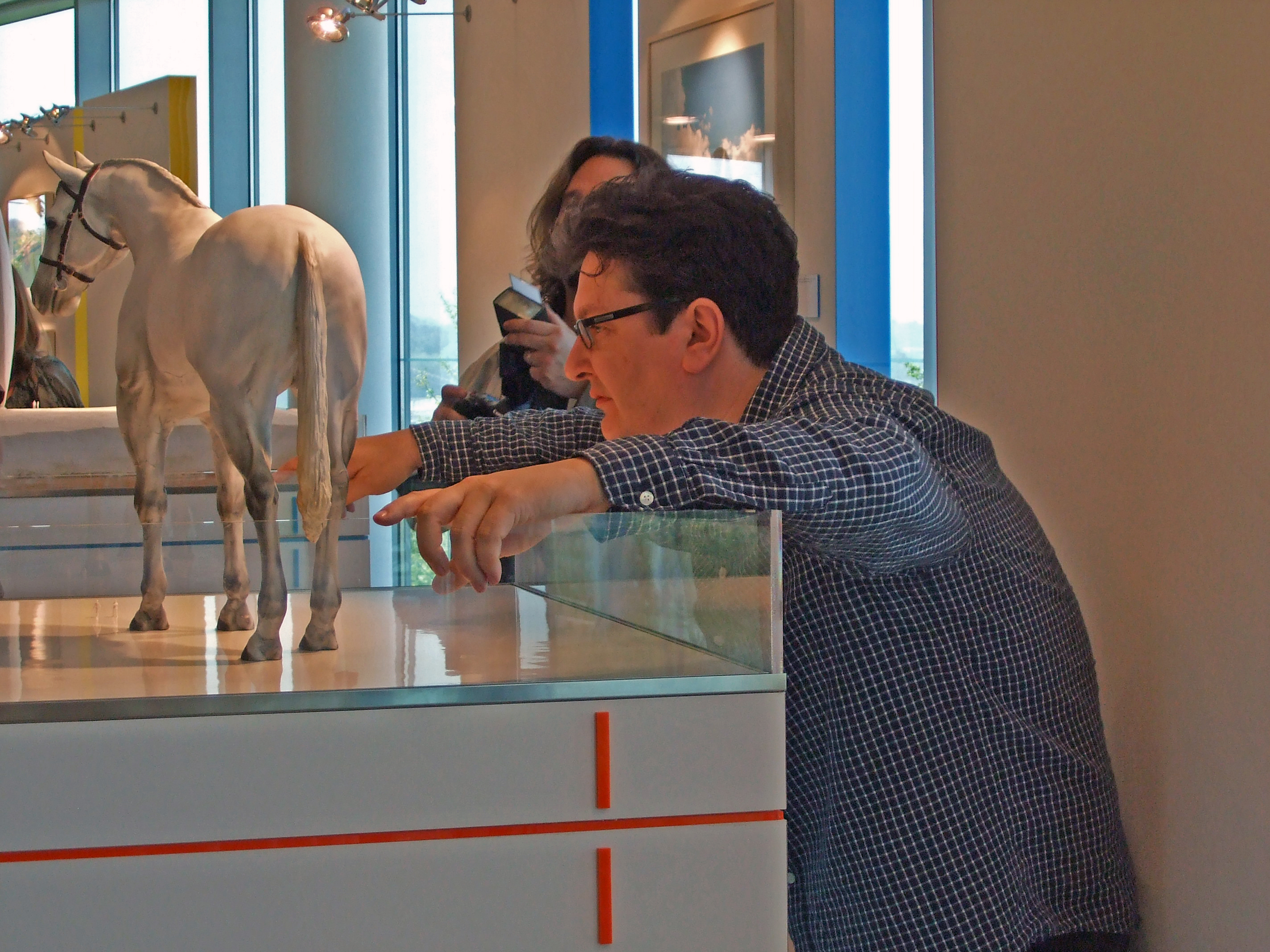 Mark Wallinger posing for the press with his horse model